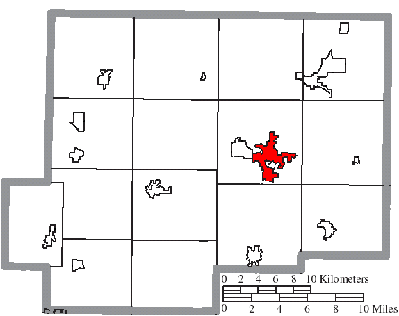 Map of the municipal and township boundaries of Putnam County, Ohio, United States, as of the 2000 census, with the location of the village of Ottawa highlighted. Township borders are shown only in unincorporated areas in order to differentiate incorporated and unincorporated areas more clearly.